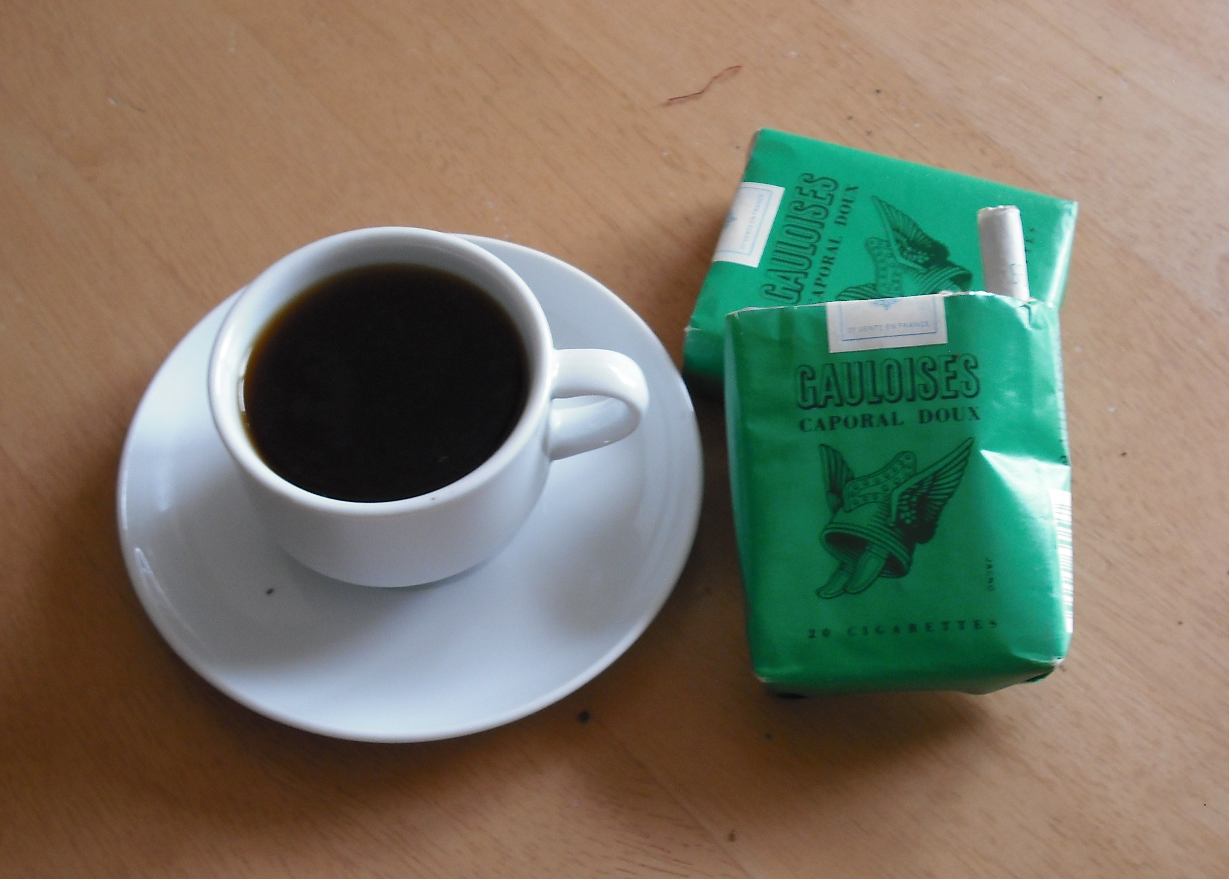 Two packets of Gauloises vertes (dénicotinisées), with a black coffee.